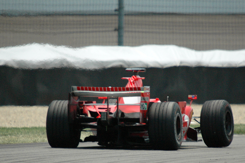 Felipe Massa driving for Scuderia Ferrari at the 2006 United States Grand Prix.